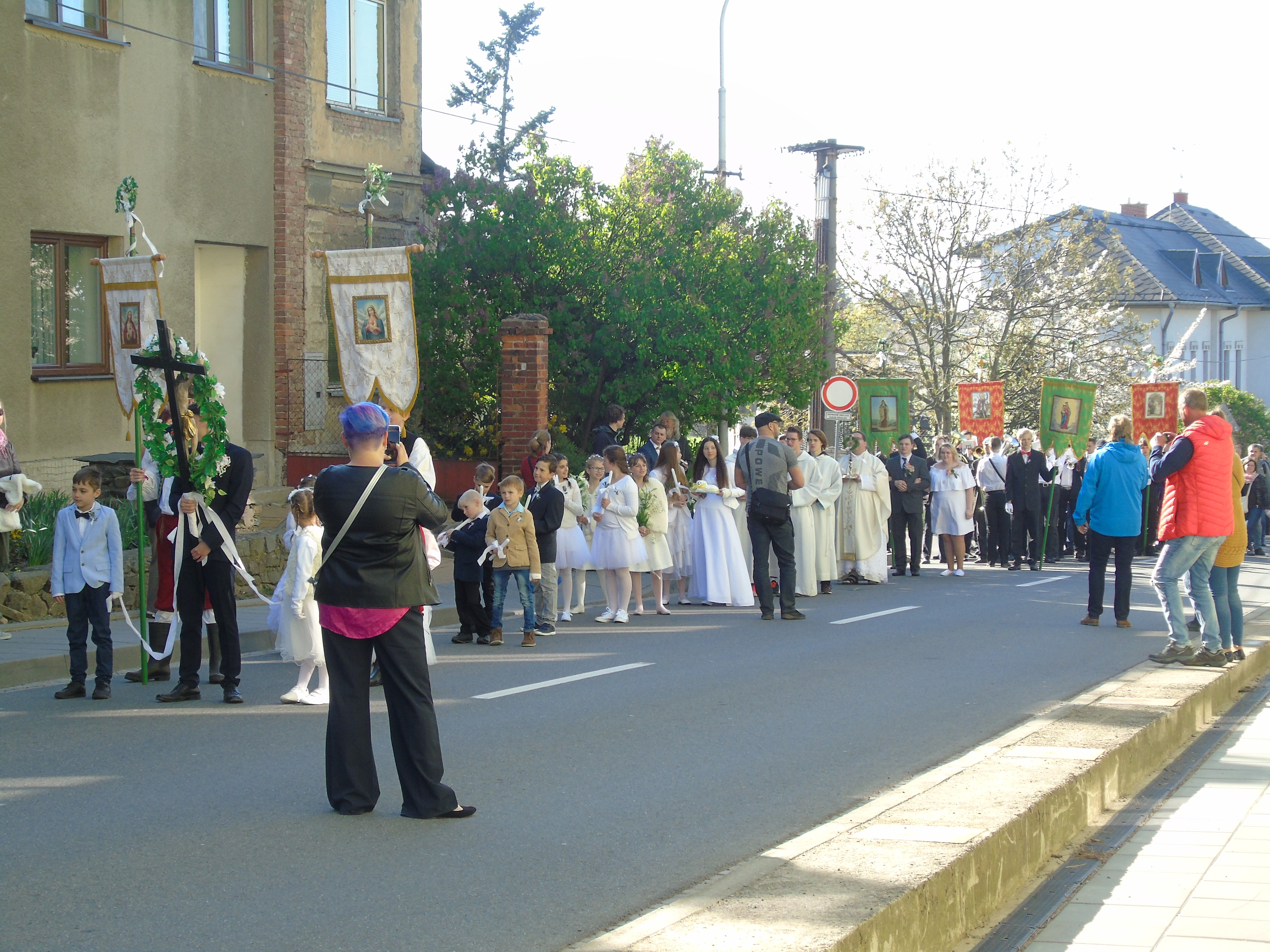 Processions in Svatý Kopeček.